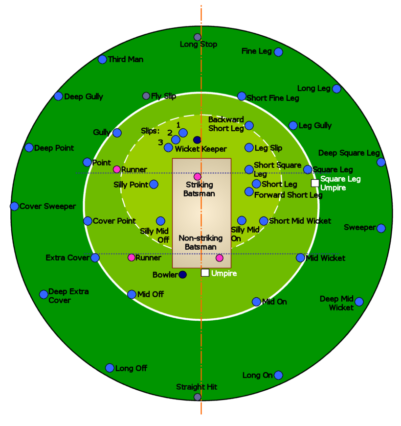 Cricket fielding positions The team batting always has two batsmen on the field. One batsman stands at the batting end of the pitch. He is known as the striker, as he faces and plays the balls bowled by the bowler. His partner stands at the bowling end and is known as the non-striker. The wicket-keeper stands behind the striking batsman. (The terms striker and batsman are used interchangeably in this article.) The captain of the fielding team spreads his remaining nine players — the fielders — around the ground to cover most of the area. Their placement may vary dramatically depending on strategy. No fielder may be placed directly behind the bowler, to avoid the batsman from getting distracted. Each position on the field has a unique label. The bowler's end umpire stands directly behind the wicket at the bowler's end, facing the batsman. The striker's end umpire, more commonly known as the square-leg umpire, stands in line with the batsman as indicated in the diagram. The bowler's end umpire is often referred to simply as the umpire, as he is responsible for most decisions. In the above image, blue dots indicate the well known and popular fielding positions. Indigo dots (dark purple) indicate permanent placement of players. Purple (light) dots indicate obsolete field placements. Pink dots are the players of the batting team, runners are only used in a match when a batsman is injured and cannot run 'between the wickets'. Square grey dots are umpire positions. The field is calibrated for a right handed batsman and a right handed bowler bowling over the wicket.